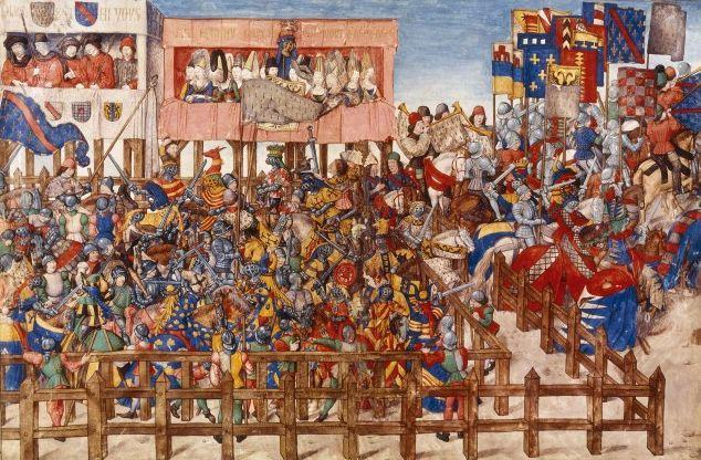 Depiction of a knightly tournament, first half of the fifteenth century. This is from a manuscript of King René's Tournament Book (which one? fol.?) The painting seems to have been badly damaged by moisture, with a lot of discoloring, and many details such as the faces of the ladies were gone; this version includes a large number of digital restorations by the uploader, Robert Prummel 2006